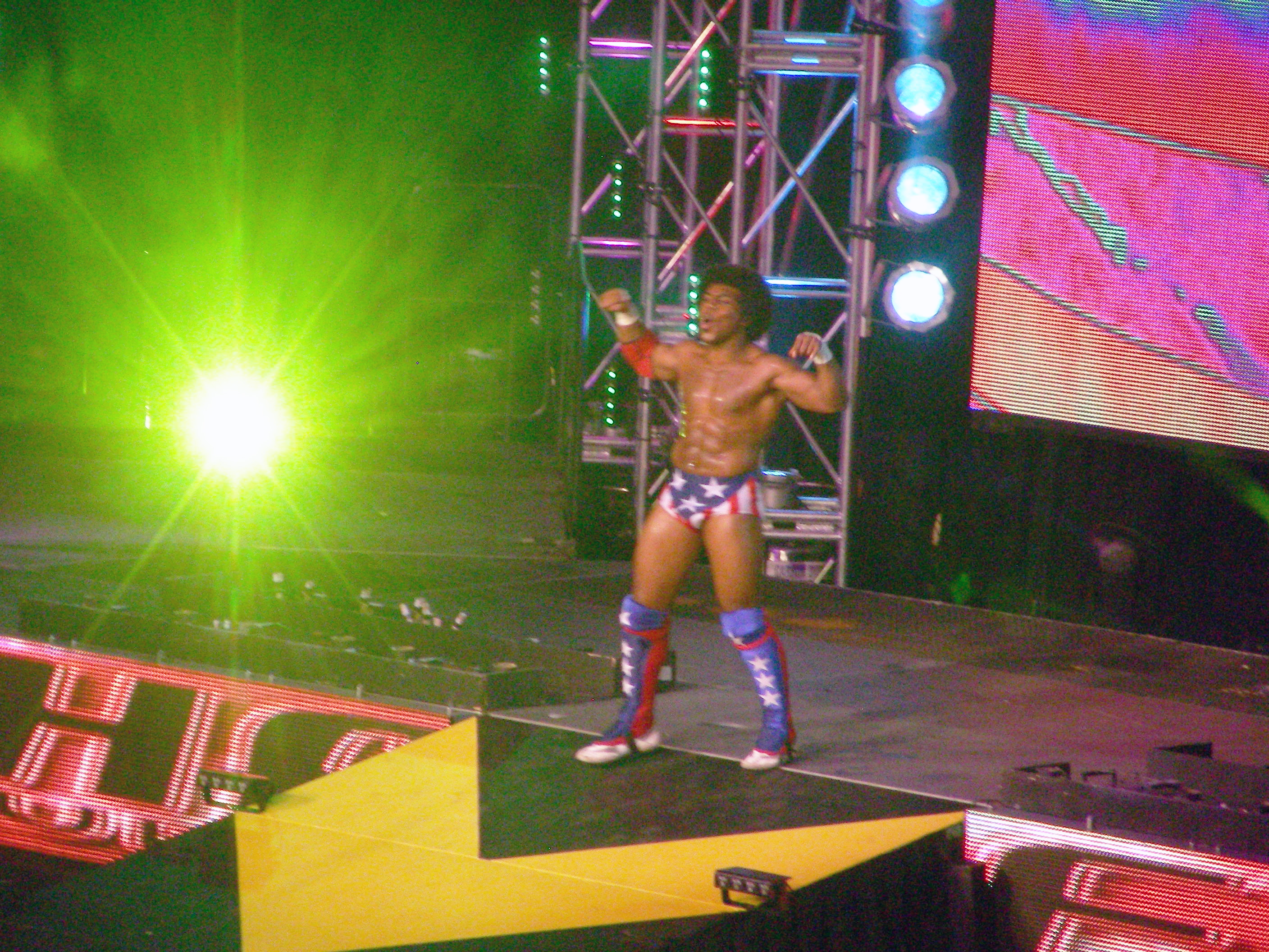 The CONSEQUENCES of LETHAL CONSEQUENCES makes his enterance, Consequences Creed!